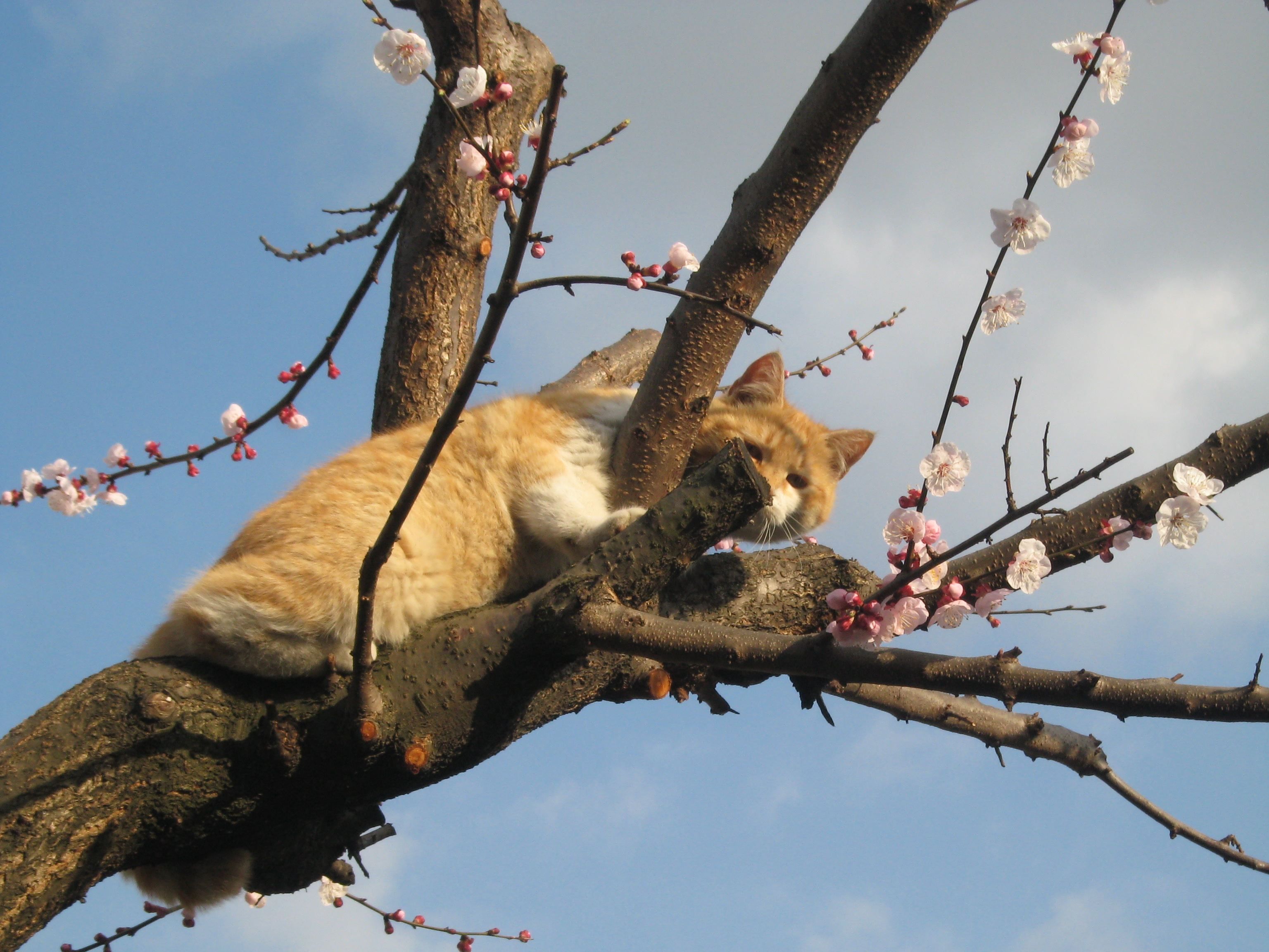 A cat on the tree.